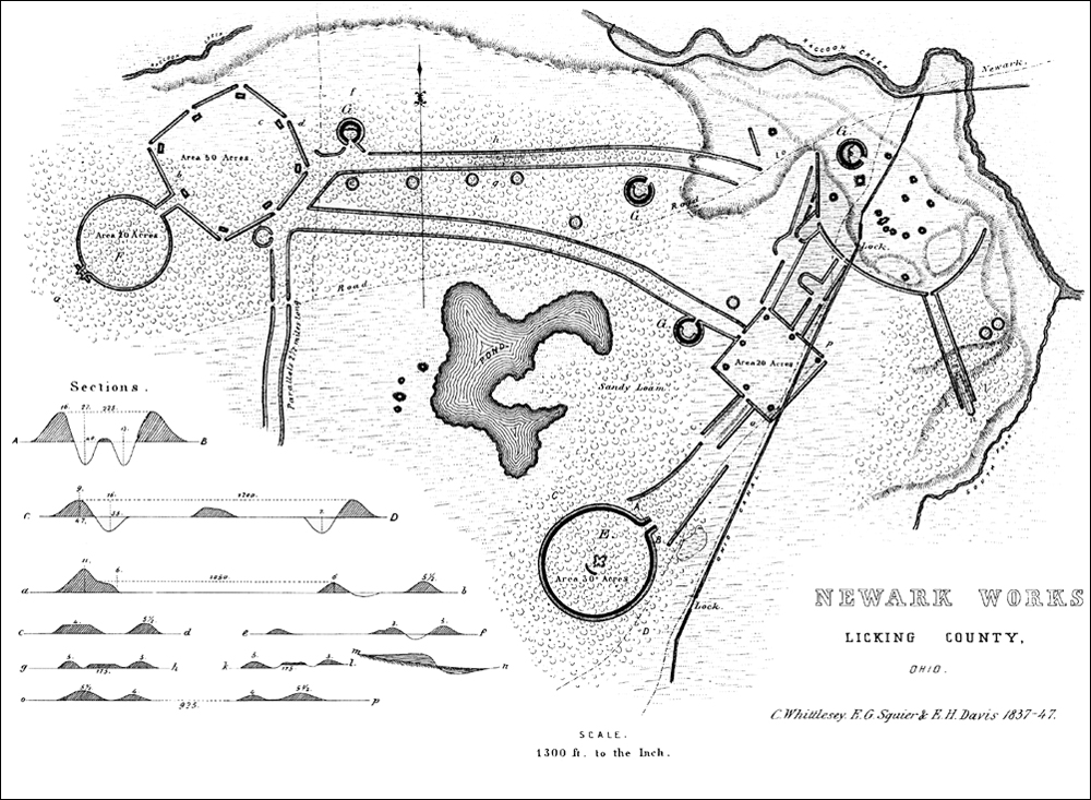 Squier and Davis engraving, plate number XXV, of the Newark Earthworks in Licking County, Ohio.